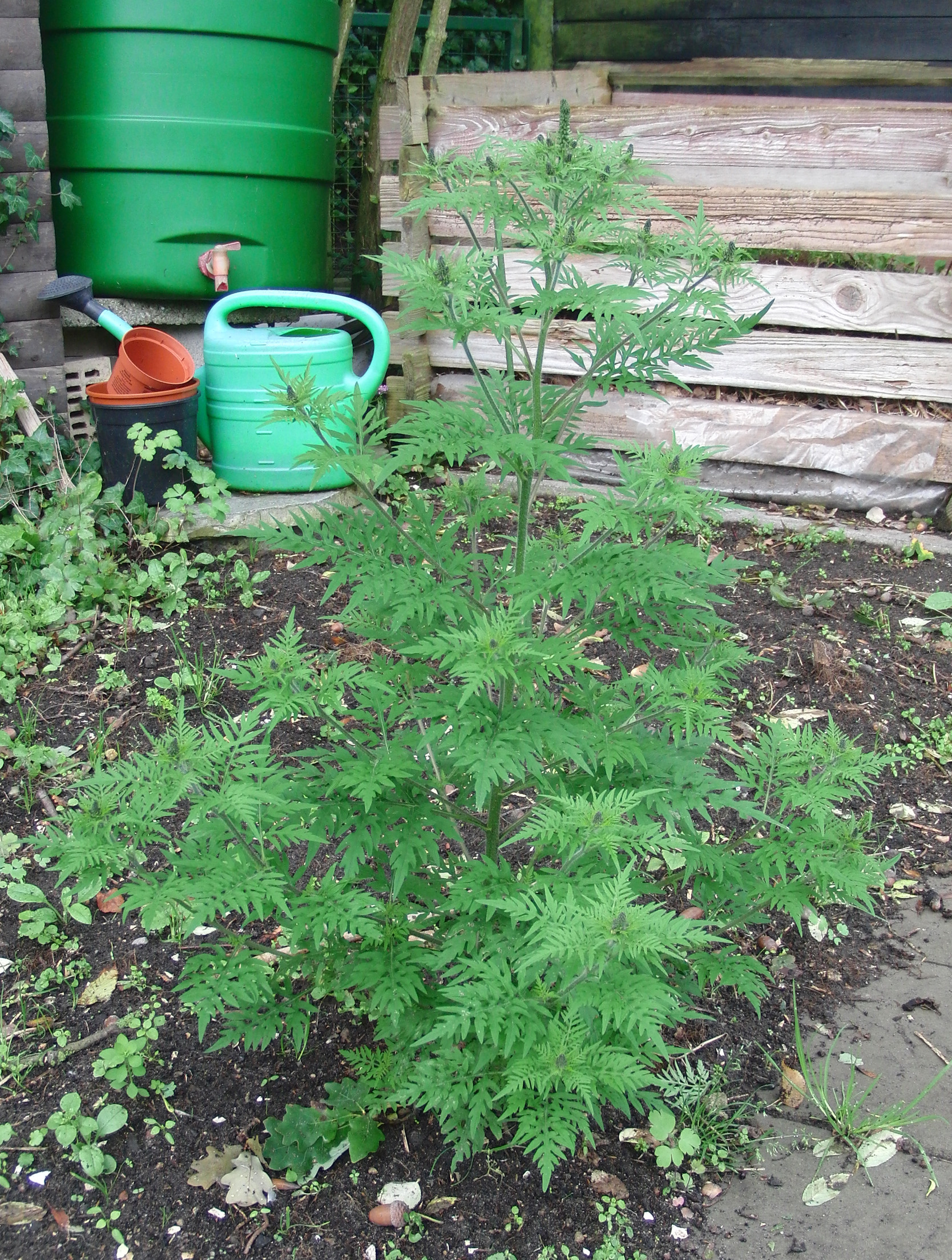 Neophytic Ragweed (Ambrosia artemisiifolia) in a garden in Hamburg, Germany